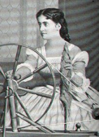 Adelina Patti, as Marguerite in Faust, scanned from early en:1920s edition of the "Victrola Book of the Opera". Photo dated en:1875.